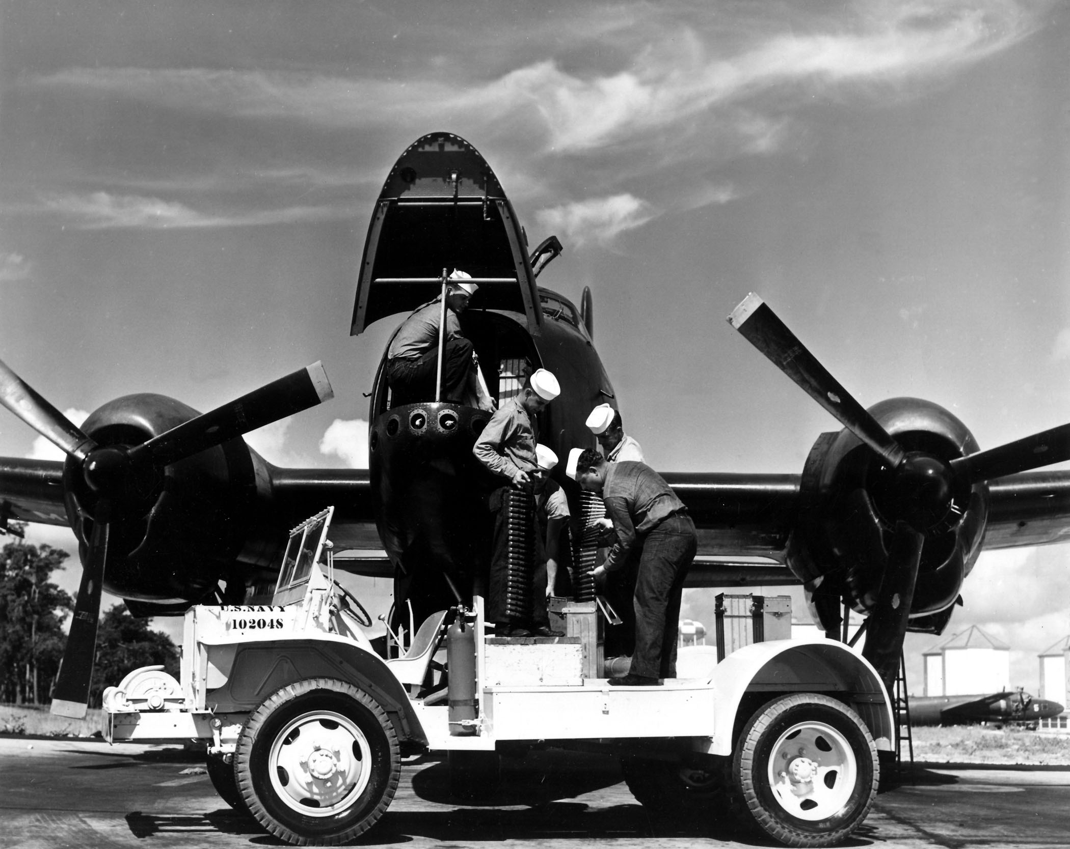 The 20 mm guns are loaded on a Lockheed P2V-2 Neptune belonging to patrol squadron VP-5 Mad Foxes on 23 July 1951 at the Naval Air Station Jacksonville, Florida (USA).